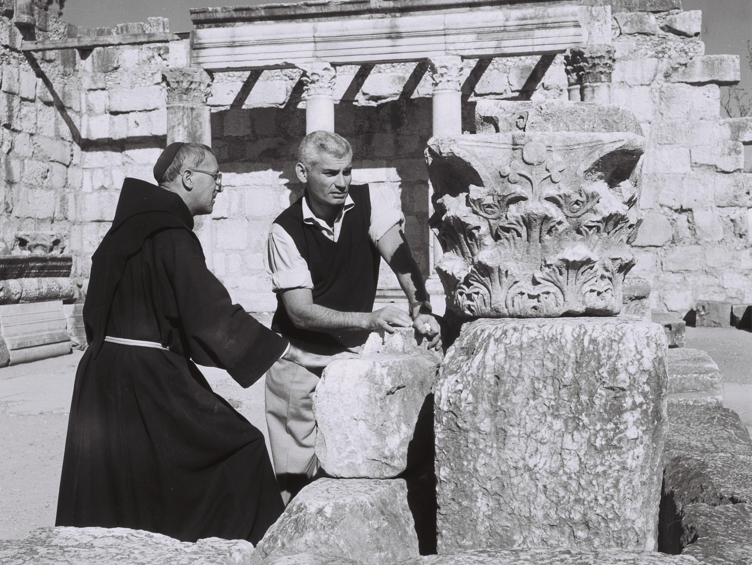 American actor Jeff Chandler at Capernaum during a visit to Israel in 1959